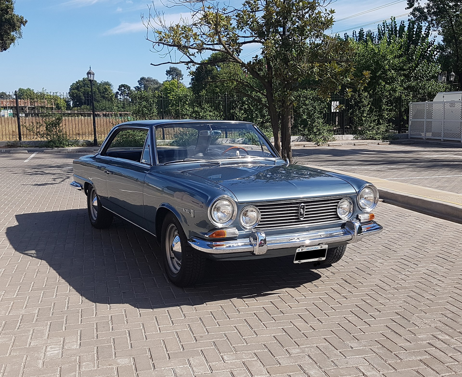 Torino 380 (1969)